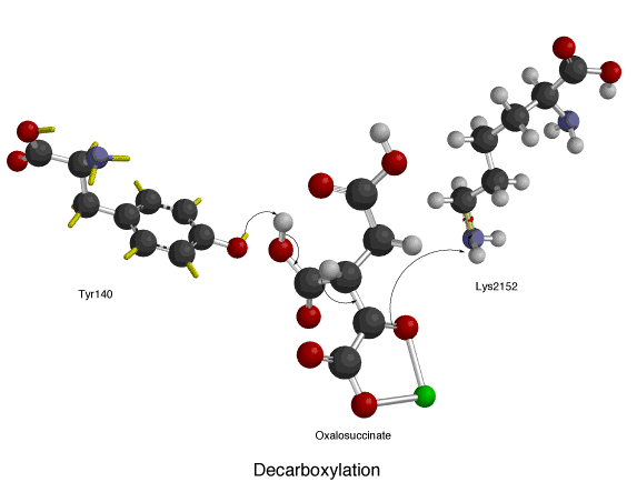 Decarboxylation of Oxalosuccinate.